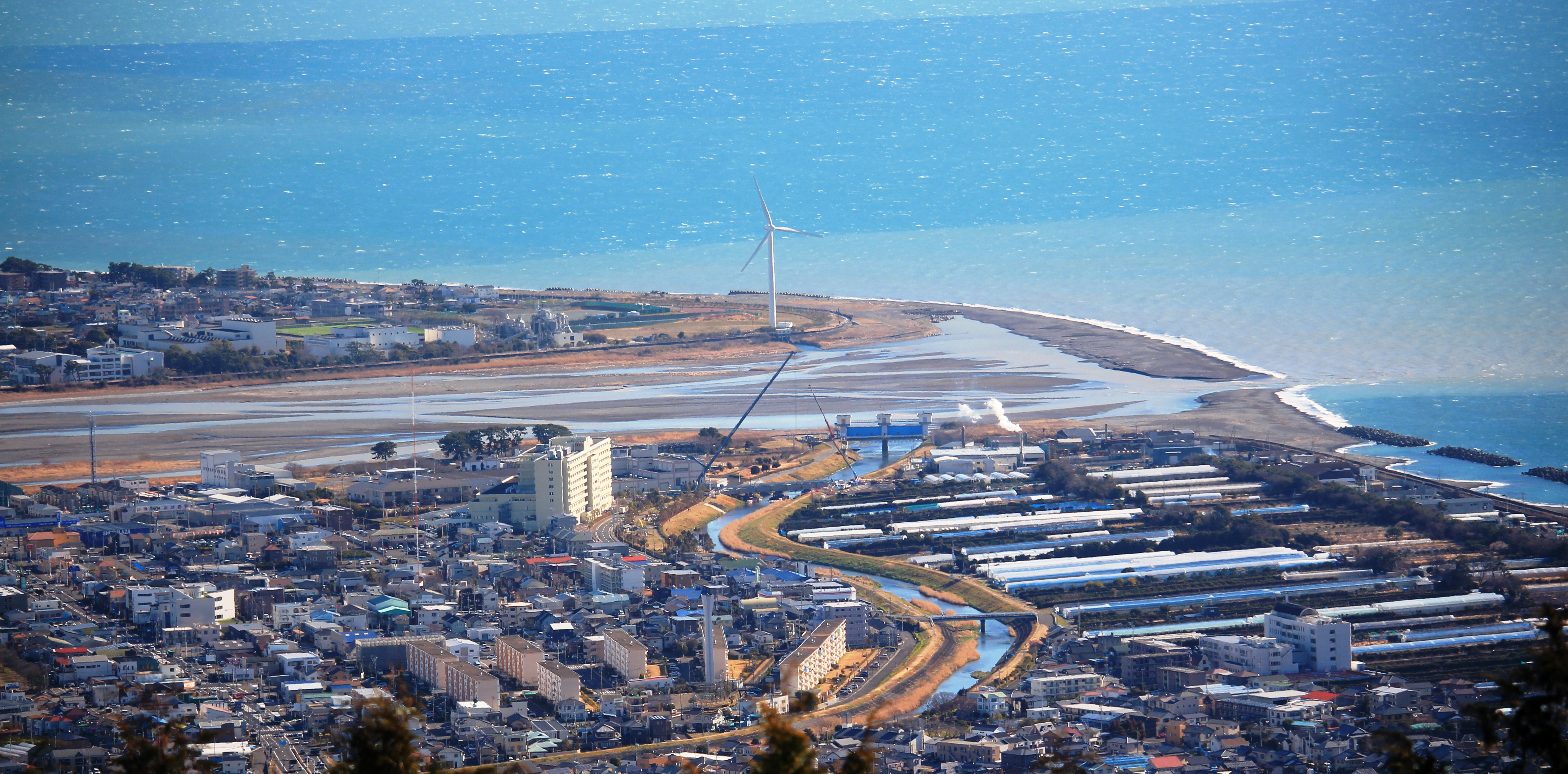 River mouth of Abe River seen from west in Suruga-ku, Shizuoka city, Shizuoka prefecture, Japan.